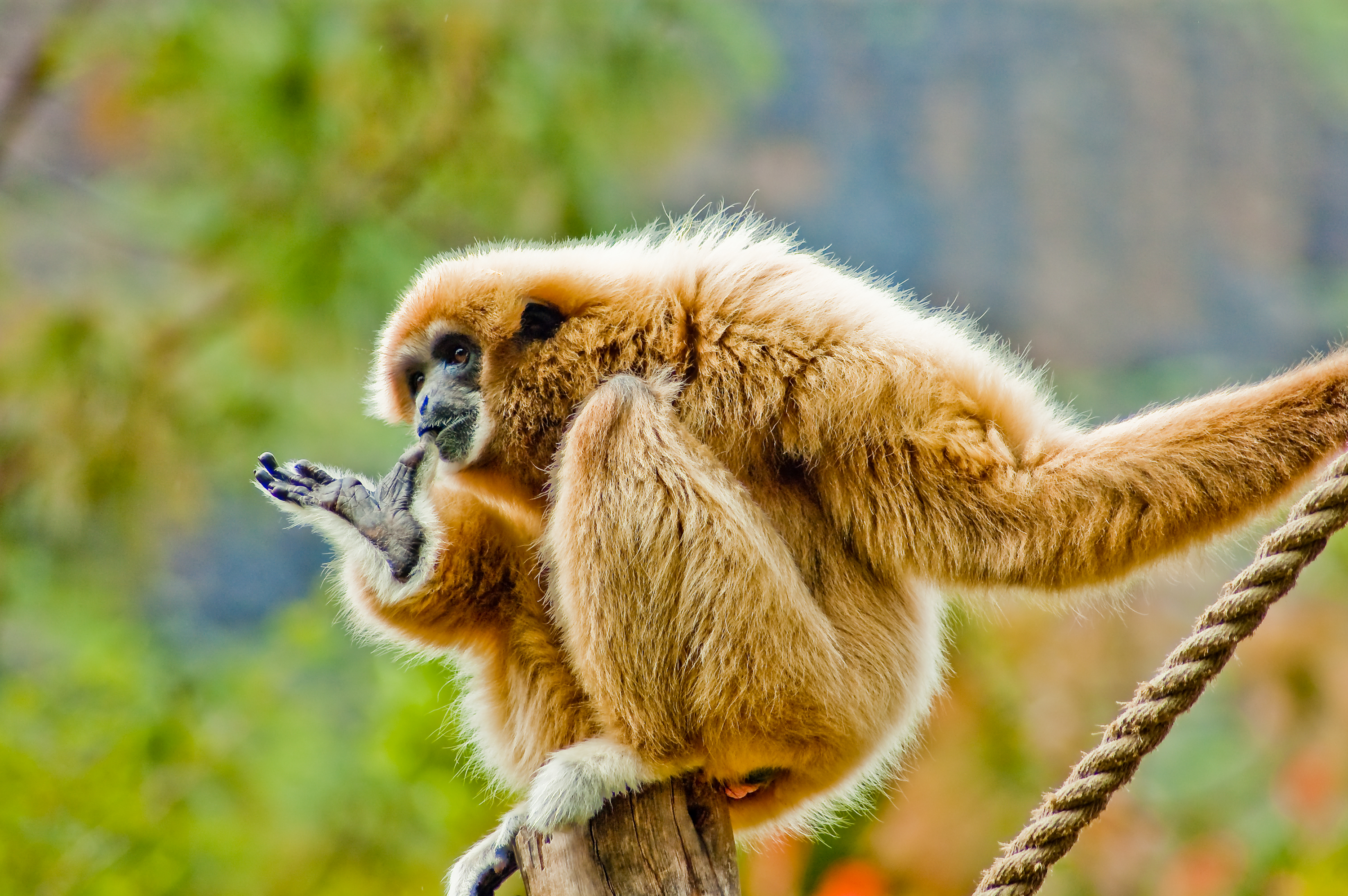 A White-handed gibbon (Hylobates lar) at Palmitos Park, Maspalomas, Gran Canaria, España